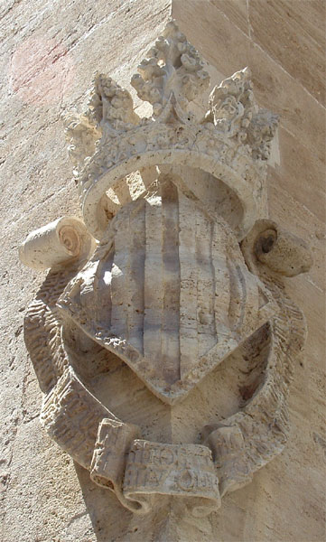 Photo of an ancient coat of arms of the city of Valencia. Shot on 14th May 2005 at La Lonja de Valencia by jcastello. Edited by jcastello.